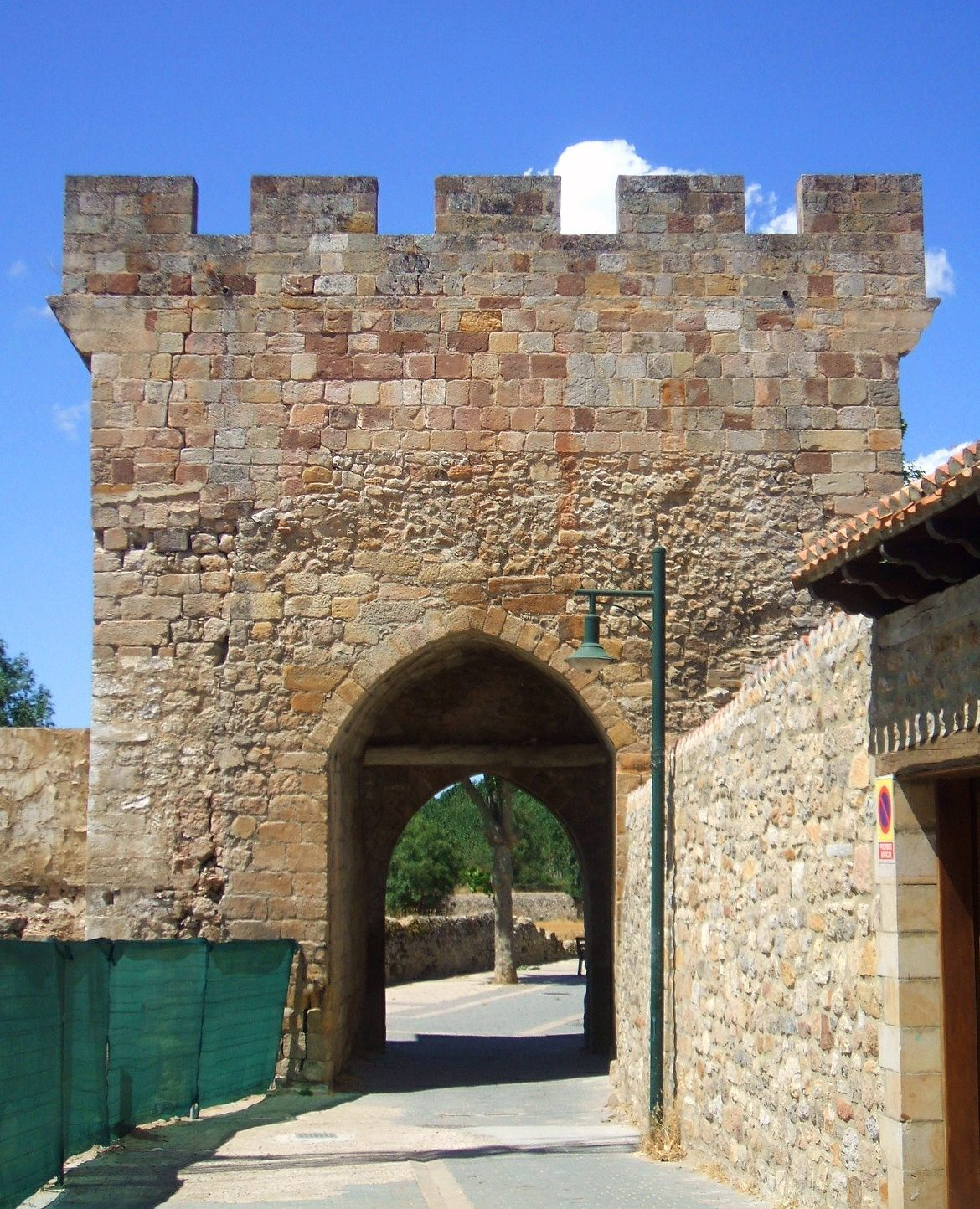 Arco del Paseo Real, en Aguilar de Campoo (Palencia, Castilla y León, España)